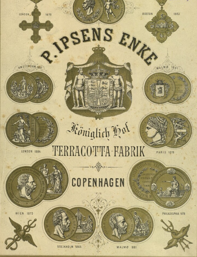 Katalog von P. Ipsens Enke Kgl. Hof-Terracotta-Fabrik Copenhagen